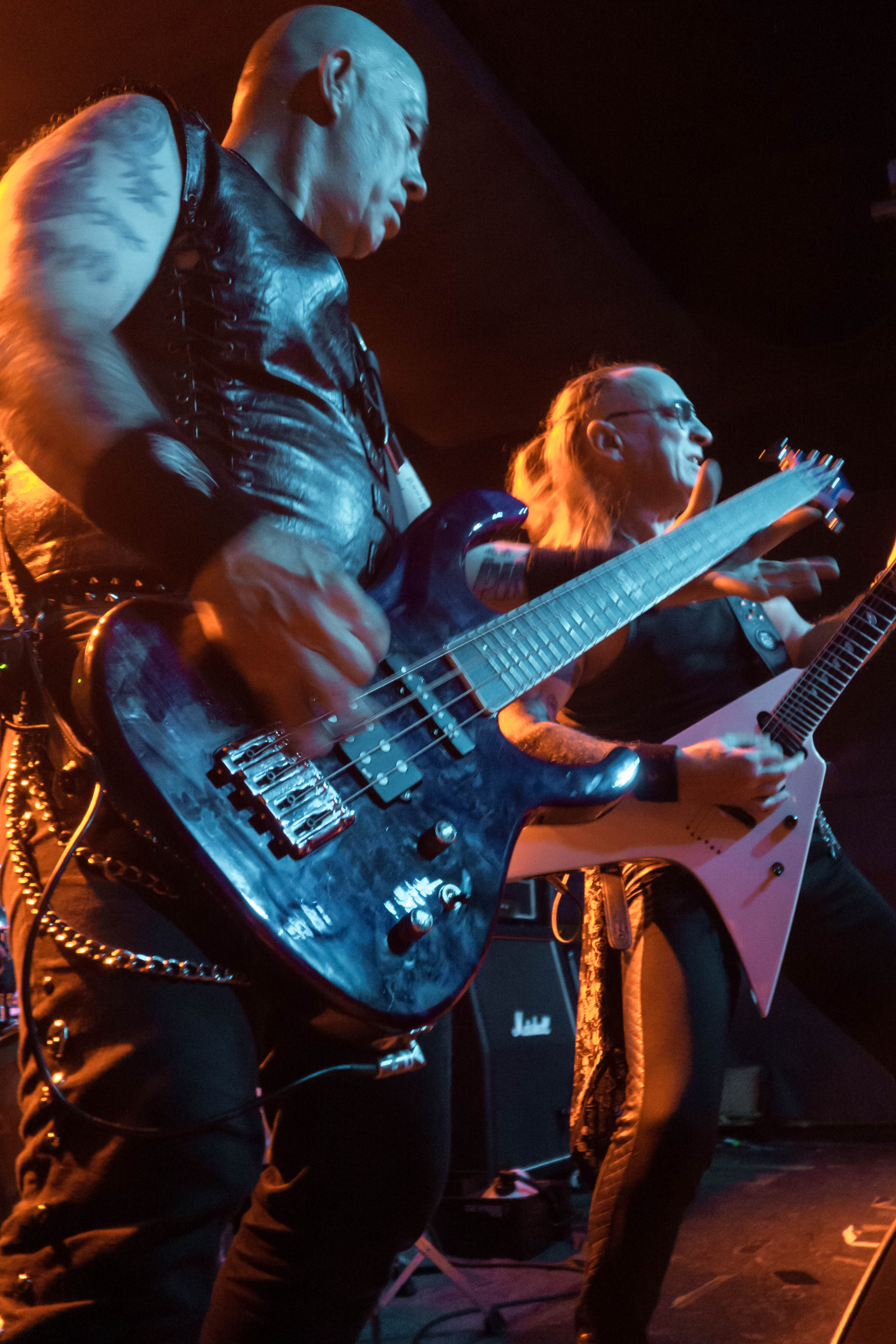 Venom Inc. performing at Saint Vitus Bar (Brooklyn, New York), October 3, 2017. Venom Inc. performing at Saint Vitus Bar (Brooklyn, New York), October 3, 2017.